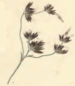 Stainton’s Natural History of the Tineina (1855–1873): Coleophora otidipennella sprig of Luzula with larval cases attached to the seeds